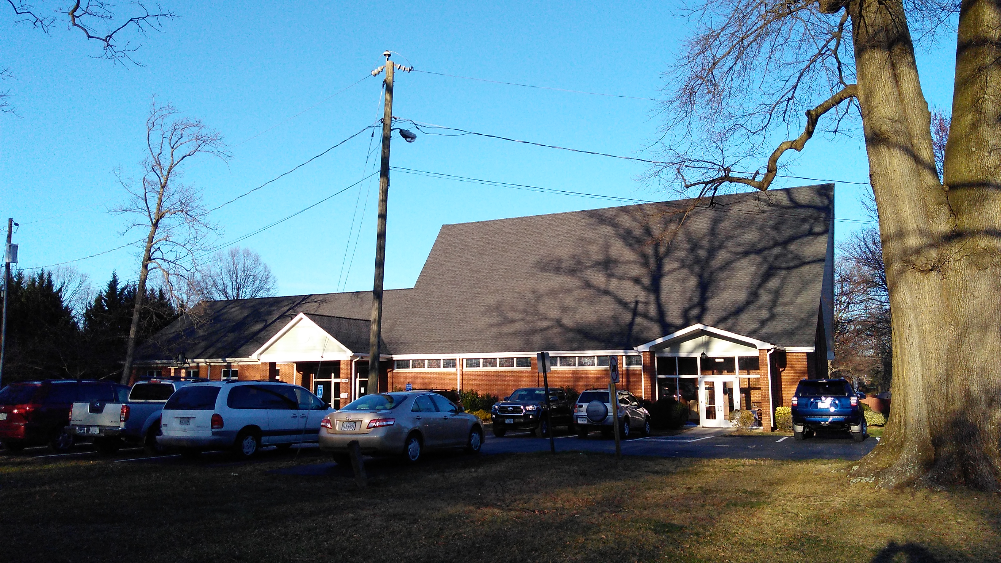 Full view of St. Mark's Episcopal Church, Groveton, Virginia in March, 2017